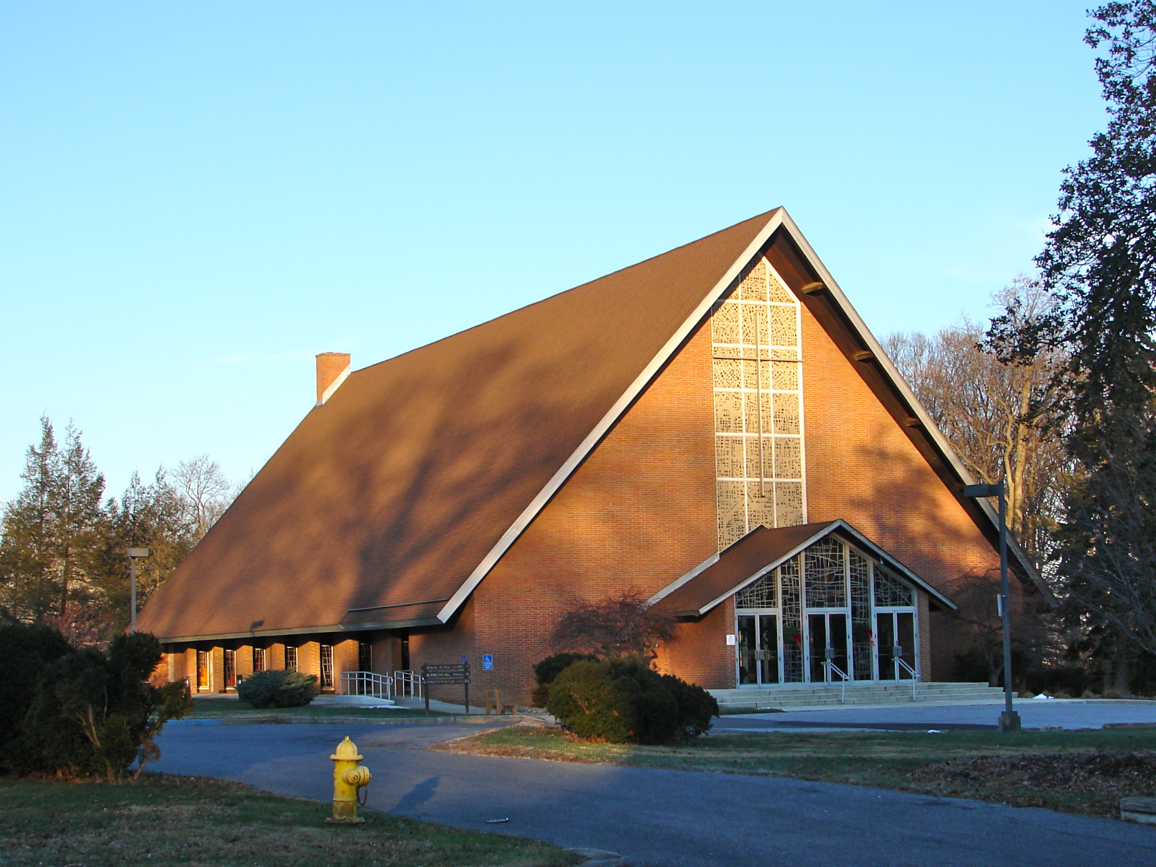 1st Presbyterian Church of Newark, Delaware on the site of the former Granite Mansion on the NRHP since February 24, 1983, at 292 W. Main St., Newark. The mansion may have been slightly to the left and behind the church. The church acquired the property in 1955, but has obviously torn down the mansion since 1983.